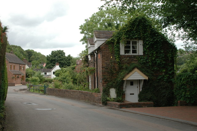 Cottage at Jackfield